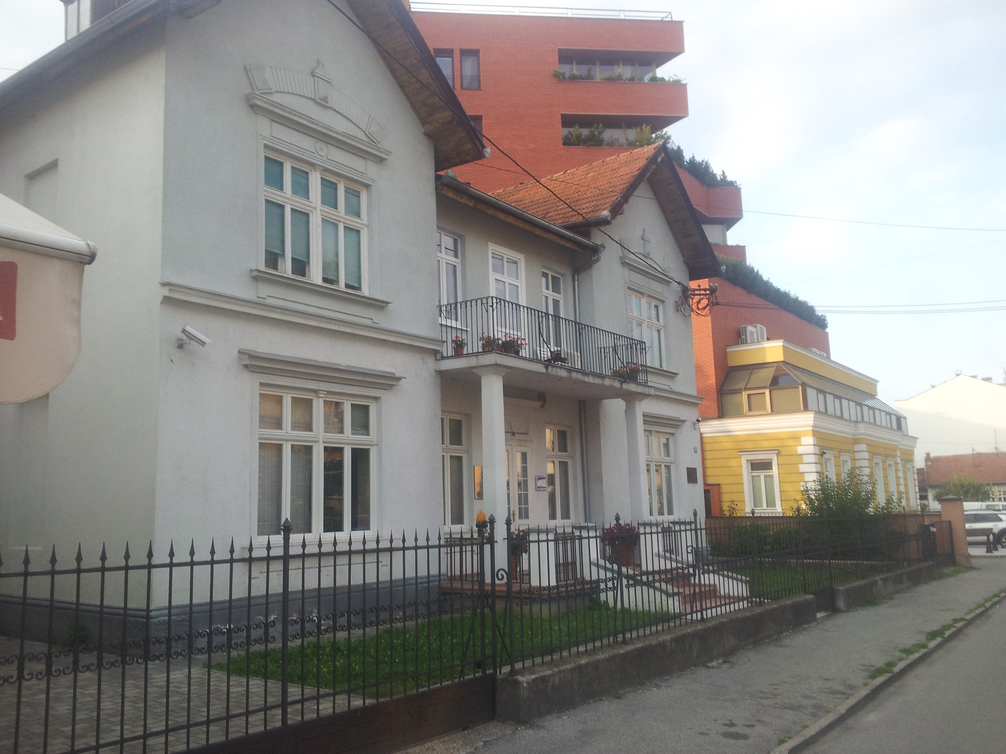 NKD108